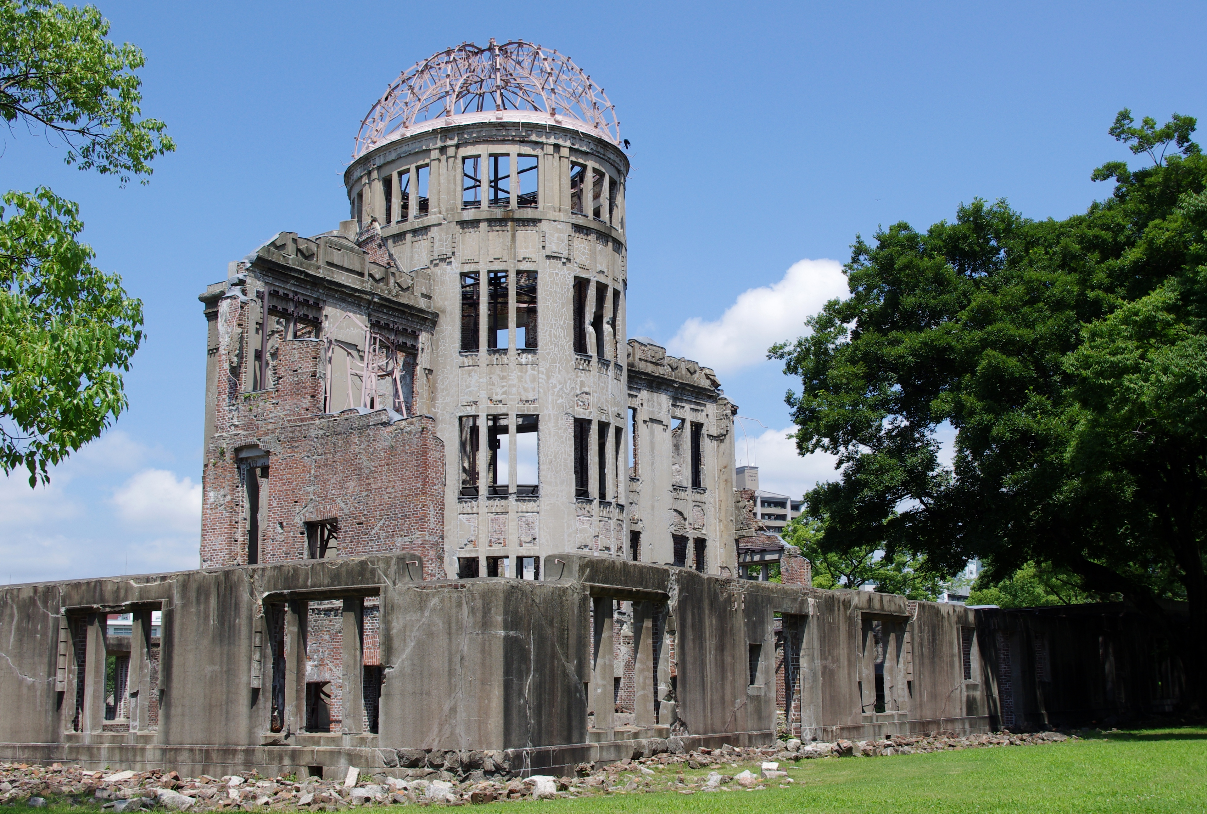 Hiroshima Peace Memorial (Genbaku Dome)